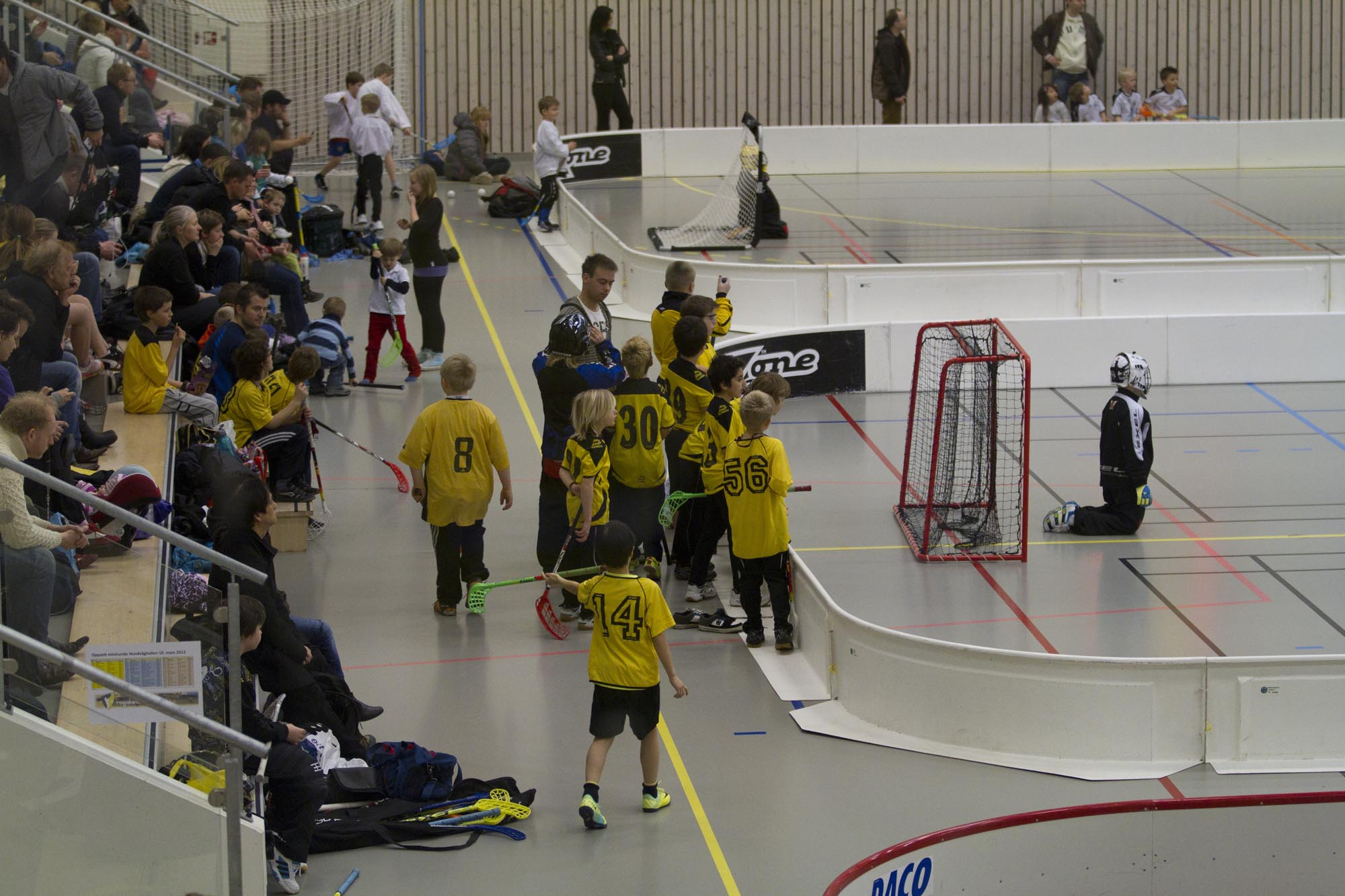 Floorball at Hundvåghallen